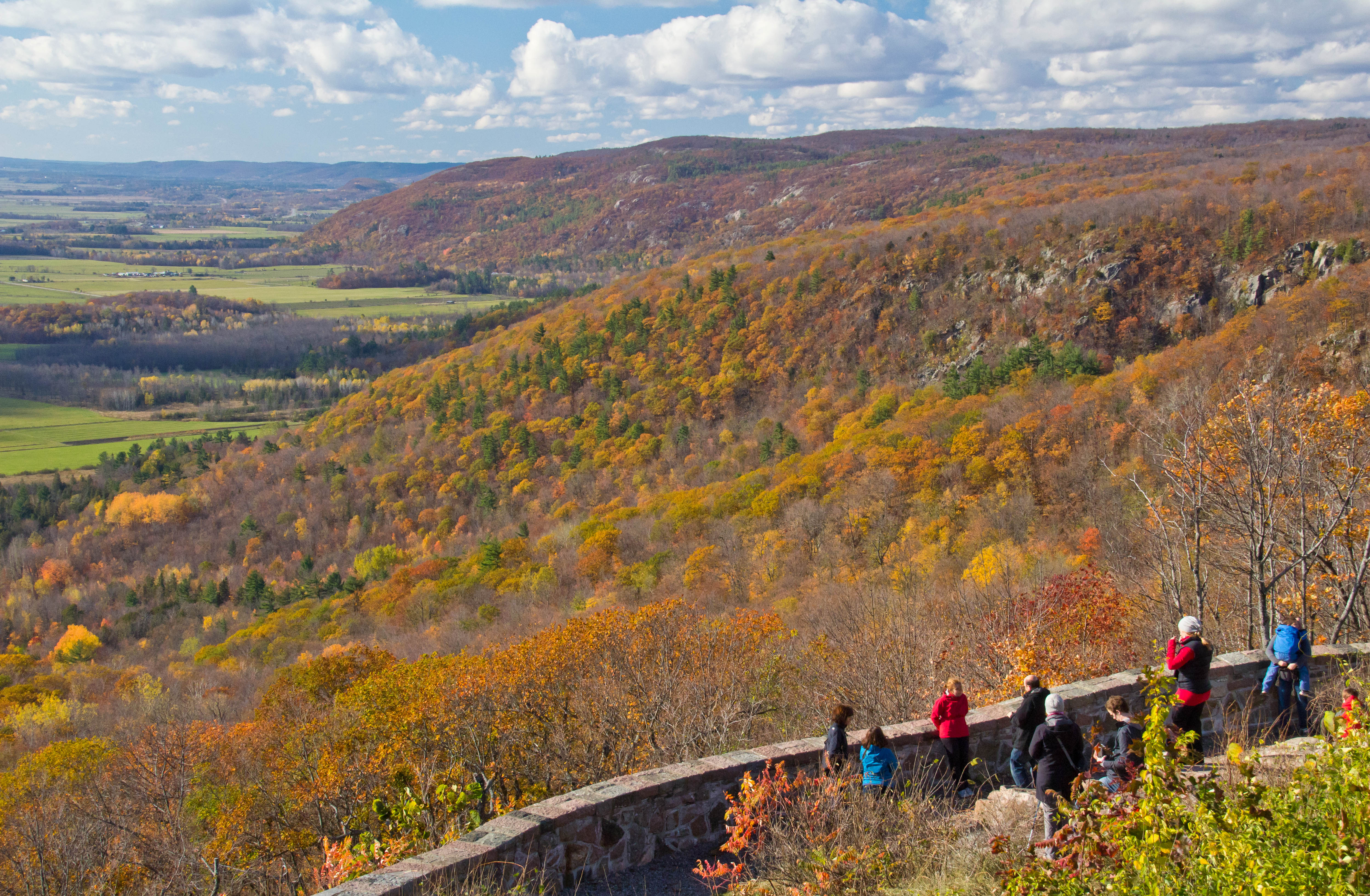 Champlain Lookout, Gatineau Park